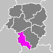 A map of the arrondissement of Brive-la-Gaillarde (Corrèze)